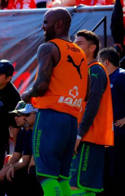 Panamanian player Felipe Baloy